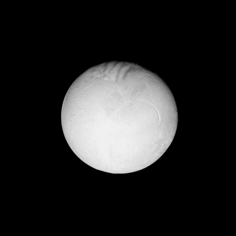 Dark lines on the top of Icy Enceladus look like a Bald Man's combover. Courtesy NASA/JPL-Caltech